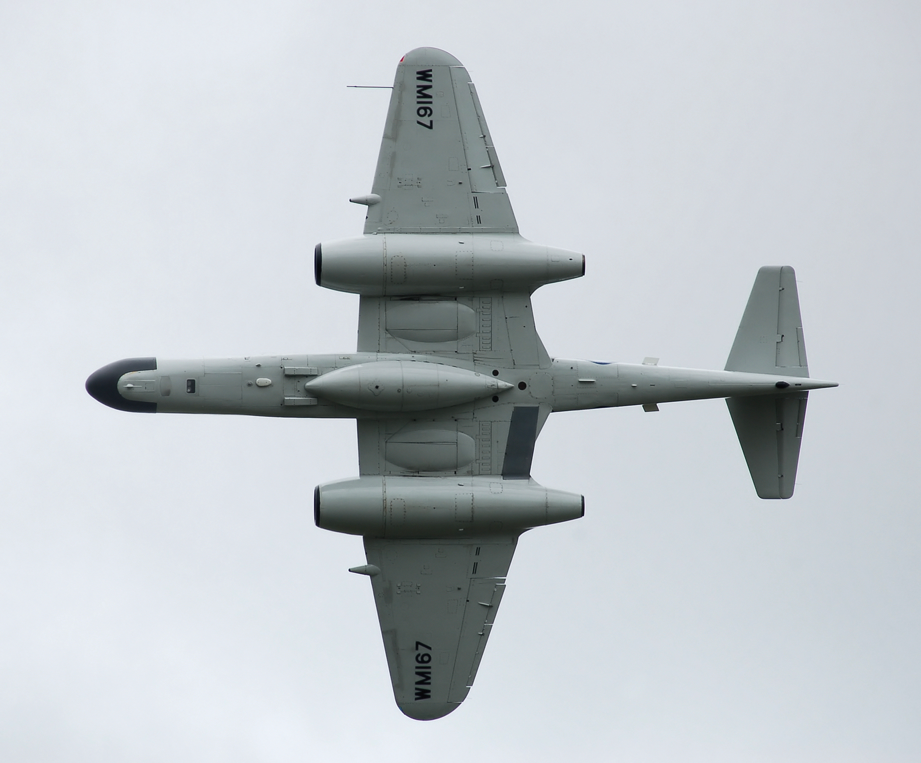 A privately-owned Gloster Meteor NF11 (civil registration G-LOSM, RAF code WM167) displaying at Kemble Air Day 2009, Kemble, Gloucestershire, England. Built by Armstrong Whitworth in 1952 at their Baginton (Coventry) factory. Into RAF service 1952, left RAF service 1975.